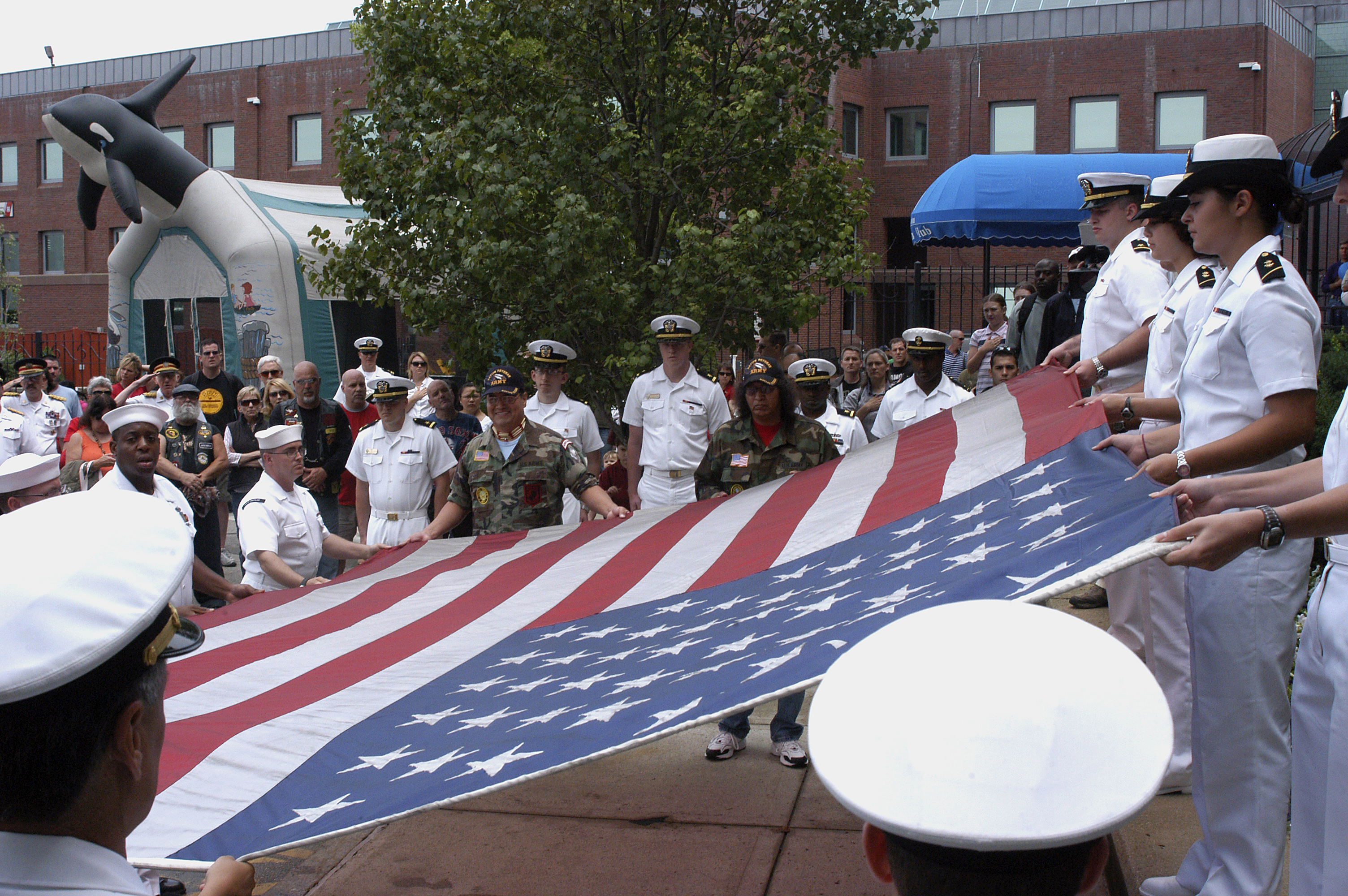 BOSTON (July 4, 2008) Sailors assigned to the multi-purpose amphibious assault ship USS Bataan (LHD 5) assist in the unfolding of a flag flown over the World Trade Center in New York City on September 11, 2001 during a ceremony at the U S. Coast Guard Station in Boston. Bataan is in Boston participating in the 27th annual Boston Harborfest, a six-day long Fourth of July festival showcasing the colonial and maritime heritage of the cradle of the American Revolution. U.S. Navy photo by Mass Communication Specialist 2nd Class(SW/AW) Jeremy L. Grisham (Released)